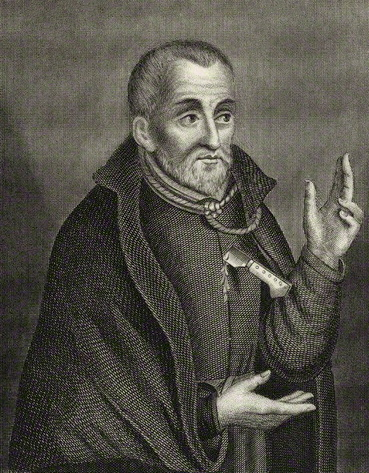 Portrait of Edmund Campion (labelled Thomas Campion in error)